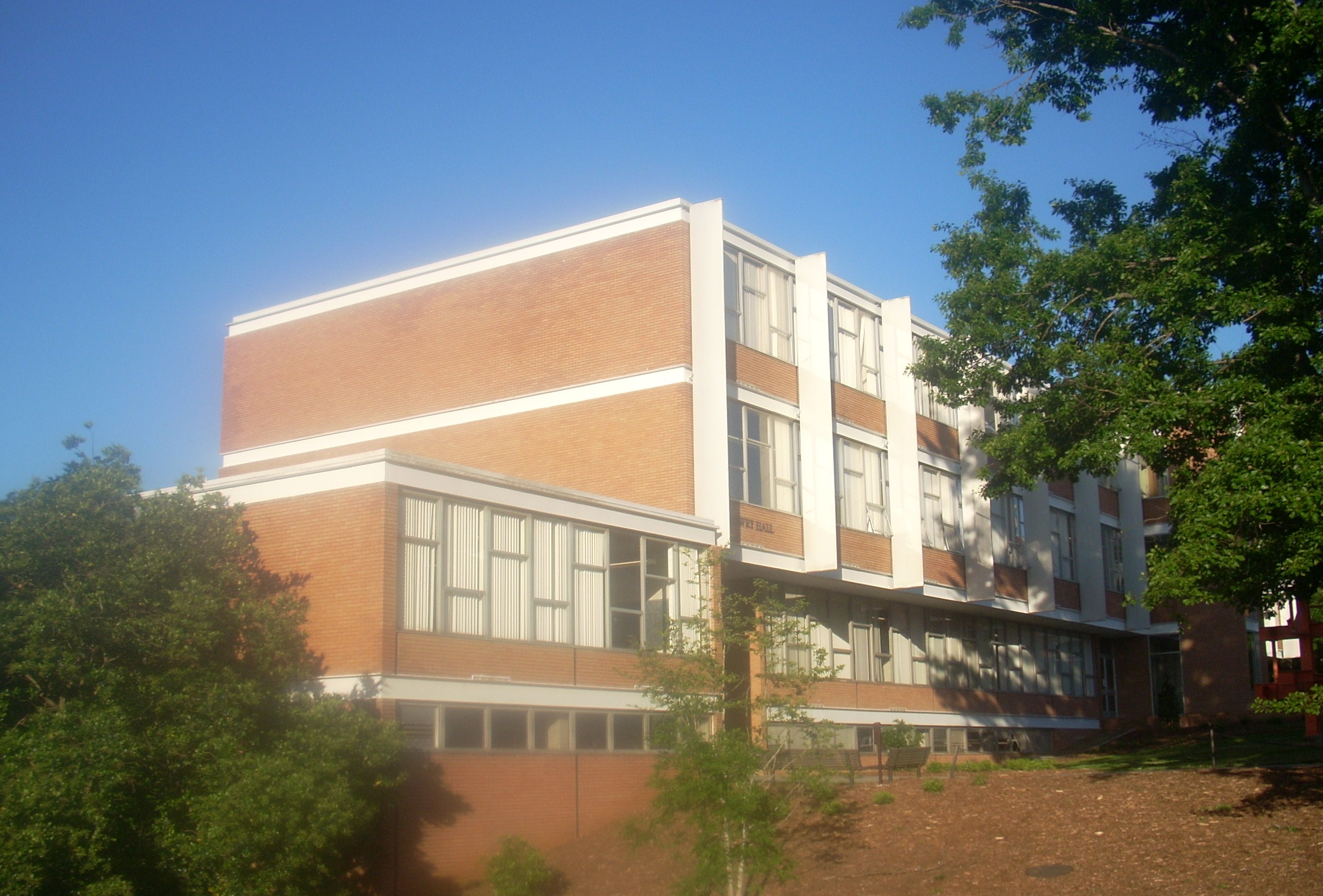 Lowry Hall, Clemson University, Clemson (Pickens County, South Carolina) One of the buildings of the NRHP Structural Science Building. Pictures show the recent addition of an elevator on the right side of the building.